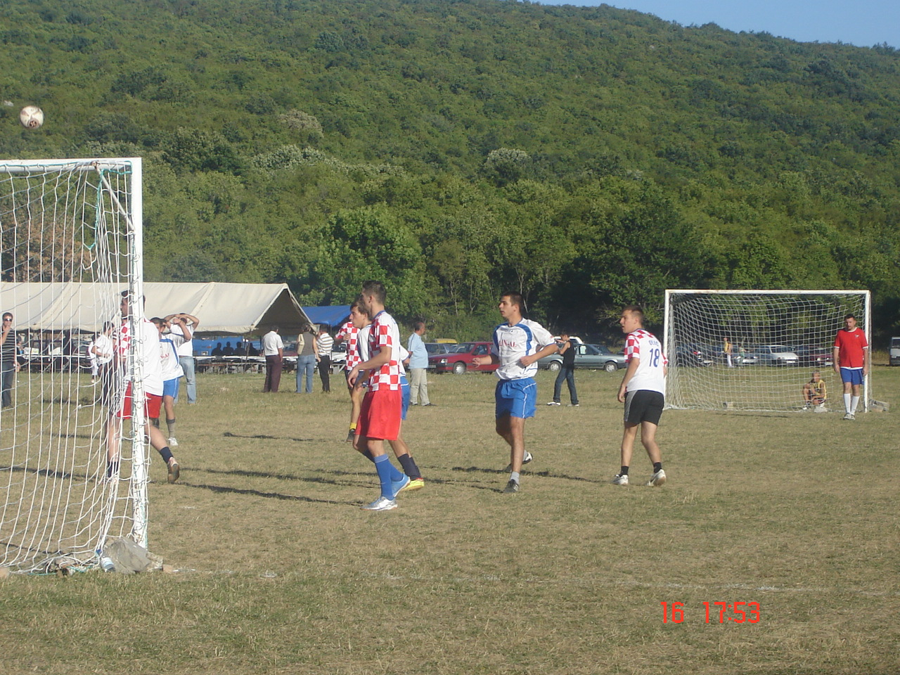 Football game in Izbično,Bosnia and Herzegovina.